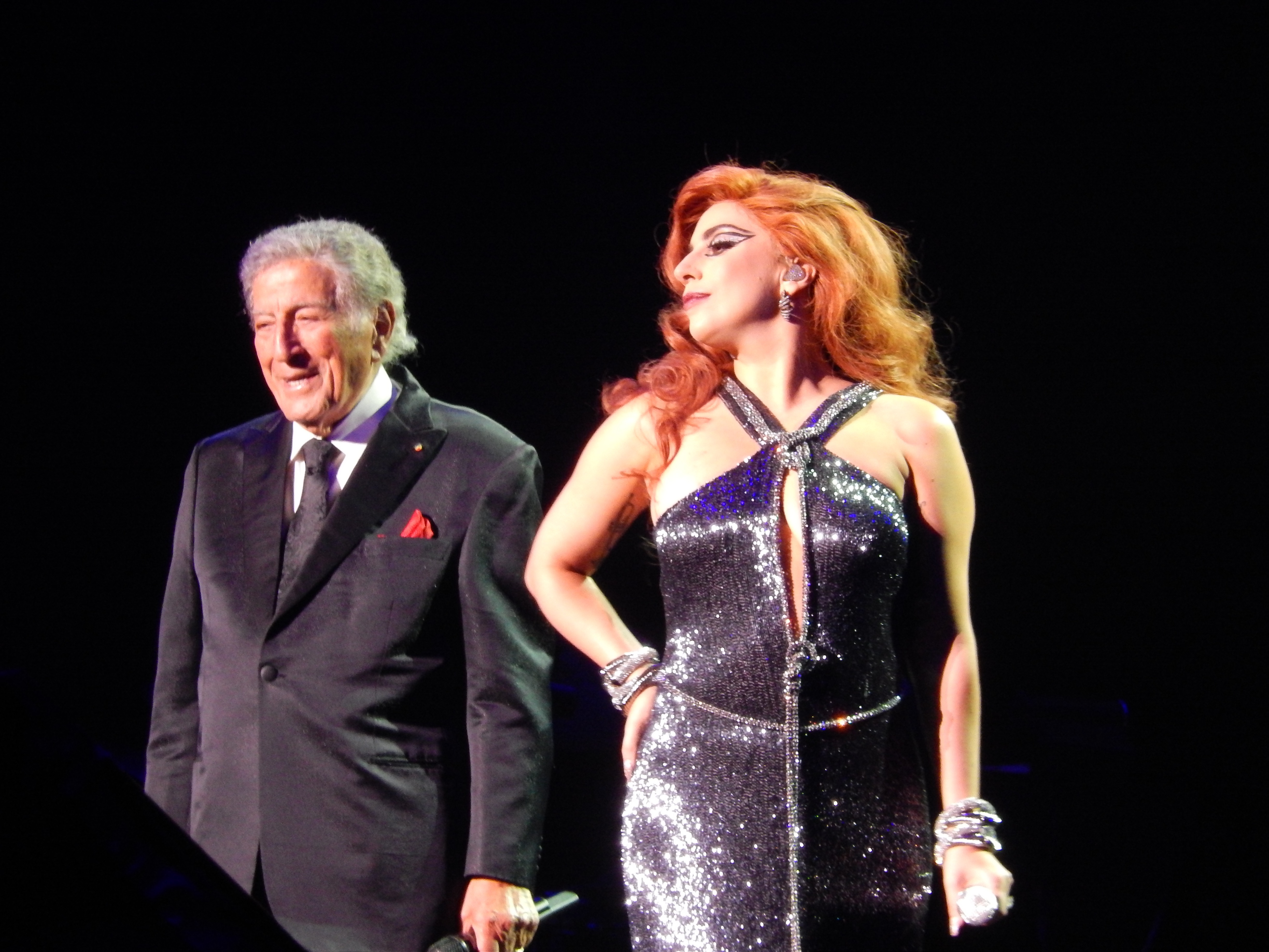 Cheek to Cheek Concert. The Axis. Planet Hollywood. Las Vegas. April 2015. Lady Gaga and Tony Bennett performing on the Cheek to Cheek Tour